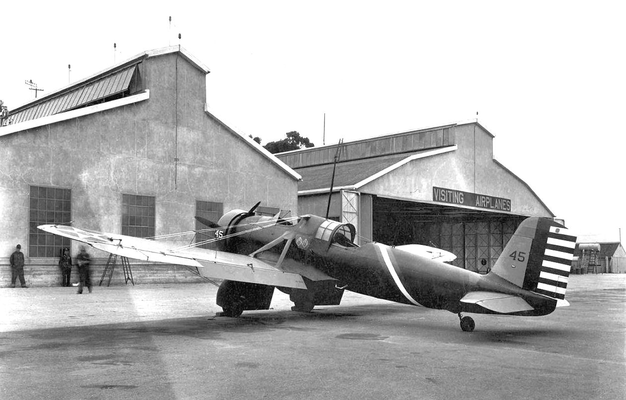 90th Attack Squadron - Curtiss A-12 Shrike, Fort Crockett, Texas